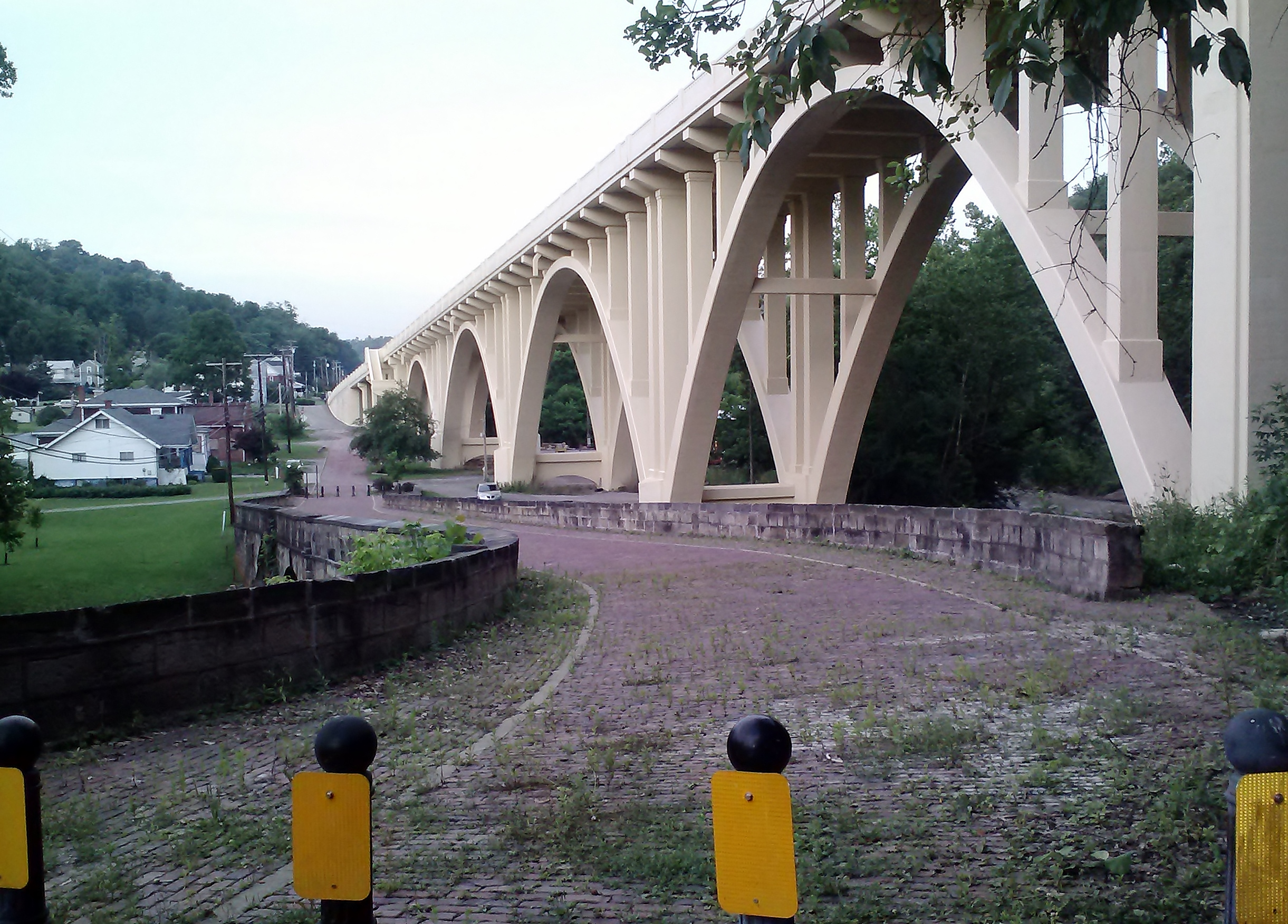 Blaine Hill "S" Bridge, Township Road 649 at Blaine Pease Township